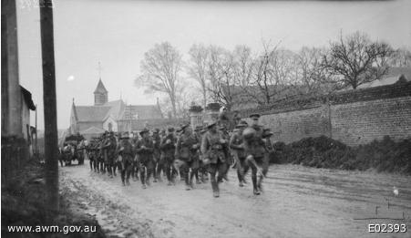 The Australian 27th Battalion entering the town of Beaucourt-sur-l'Ancre in the Somme, France. The 27th Battalion marching througt the street, when the 2nd Division was moving up to relieve their hard-fought comrades in the Dernancourt and Villers-Bretonneux sectors. Left to right: 3093 Sergeant (Sgt) P. J. Duffy (6) 132 Private (Pte) J. Maly (5) 5397 Pte H. S. Smith (4) 534 Company Sergeant Major G. A. Edwards (3) Lieutenant J. A. Blacket, killed in action 10 June 1918 (2) 5126 Sgt J. A. Pearson (7) Captain R. G. Horwood MM (1) See E02393K for position of those named in this caption.